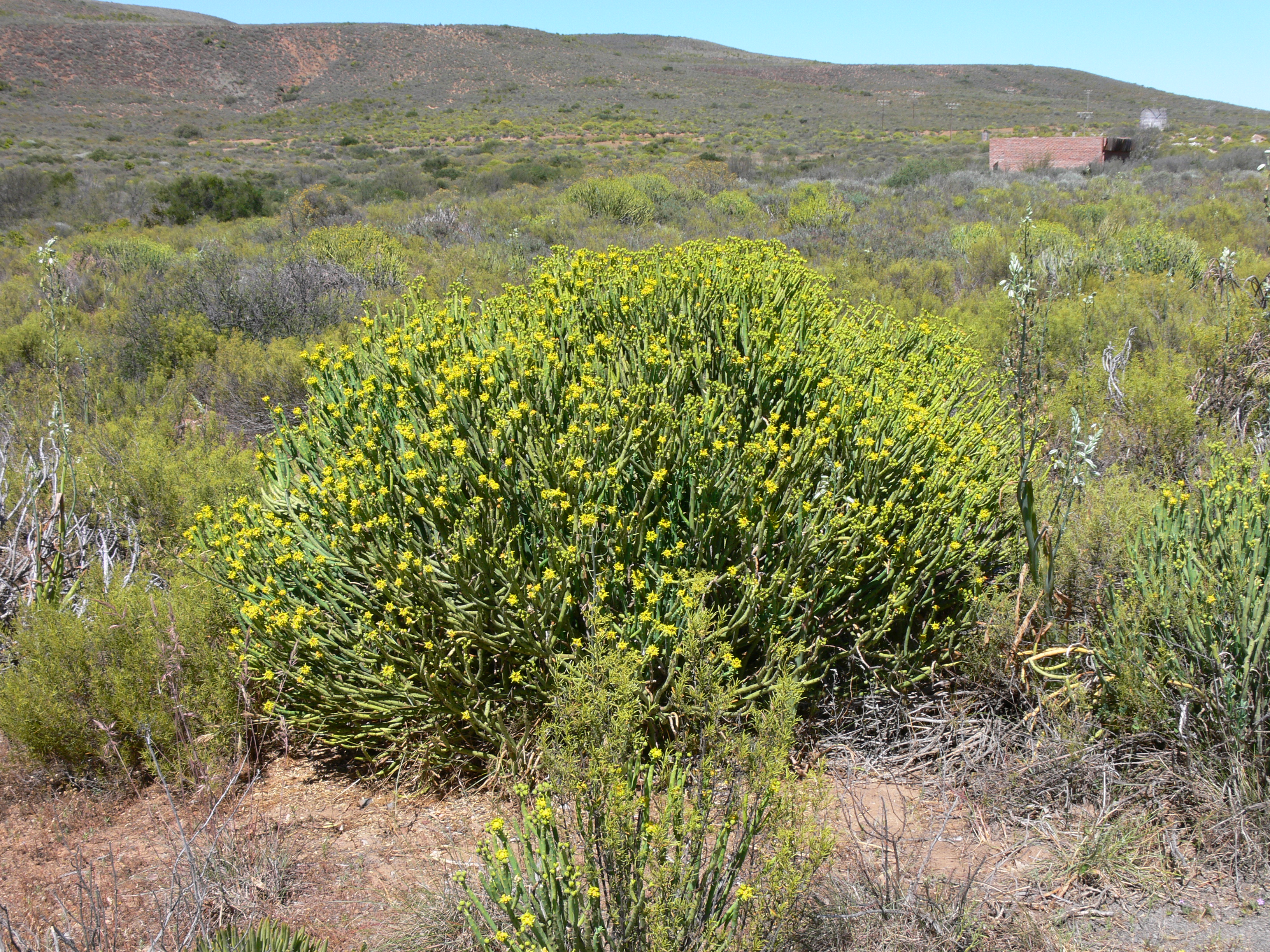 Poison Milk Bush, also known as Pencil Milkbush, Euphorbia mauritanica L., near Nieuwoudtville, Hantam Local Municipality, Namakwa District Municipality, Northern Cape, South Africa